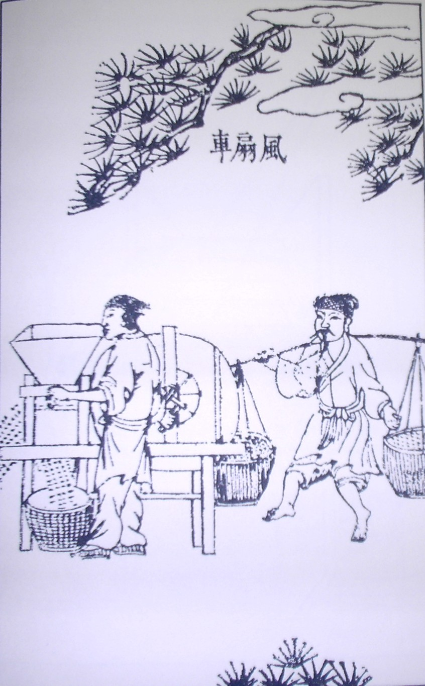 17th century Chinese illustration of a crank-operated rotary winnowing fan machine, separating husks from the grain. This picture was published in the year 1637, found in the Tiangong Kaiwu encyclopedia written by the Ming Dynasty scholar Song Yingxing (1587-1666). – It can be found on page 85 of E-tu Zen Sun and Shiou-chuan Sun's translation (Pennsylvania State University Press, 1966).